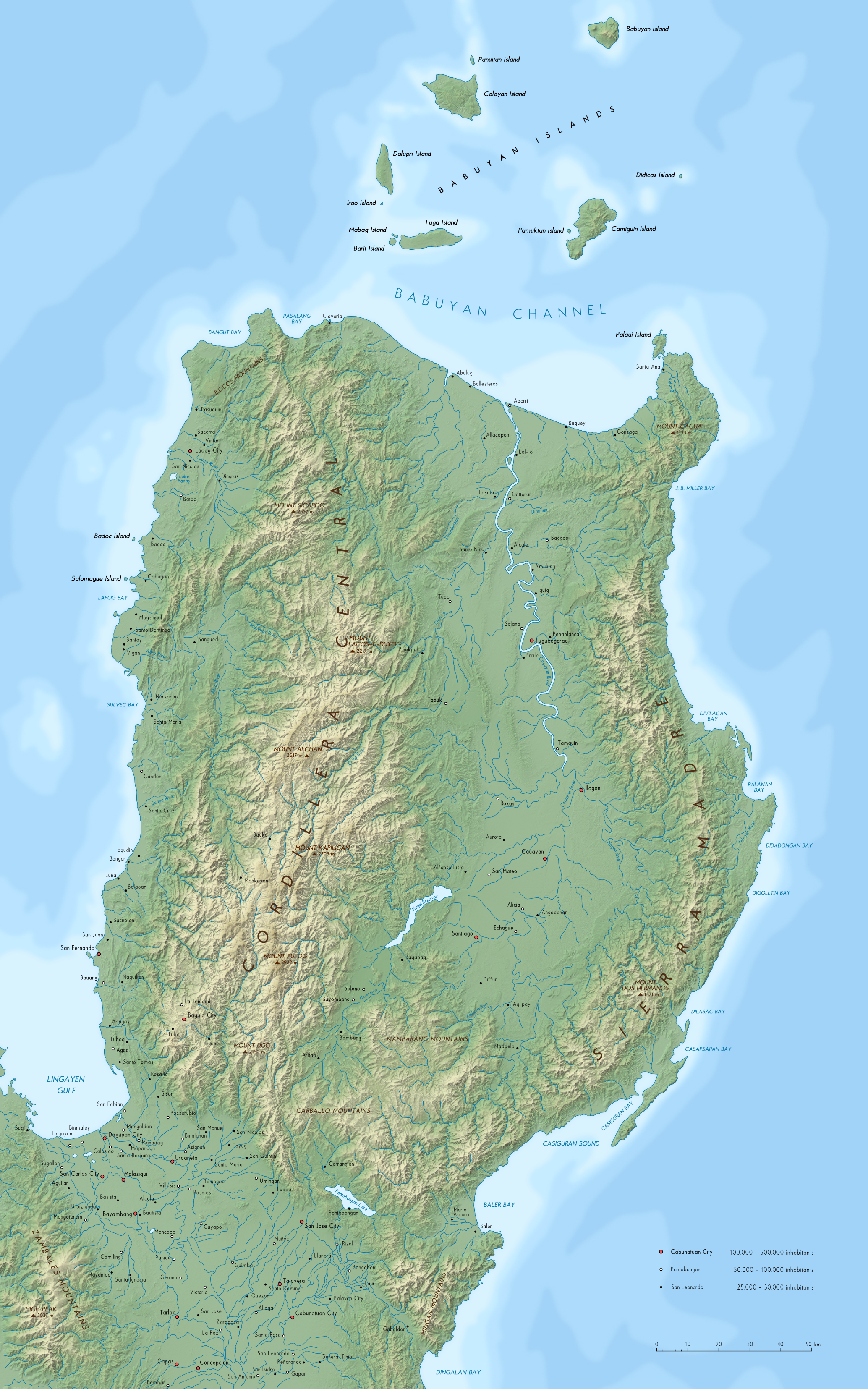 Topographic map of the Northern part of the Philippine Island Luzon with the Babuyan Islands. Used data: NASA Shuttle Radar Topography Mission digital topographic data (SRTM3 2.1) (Public Domain) and Philippines 2007 Census of Population.